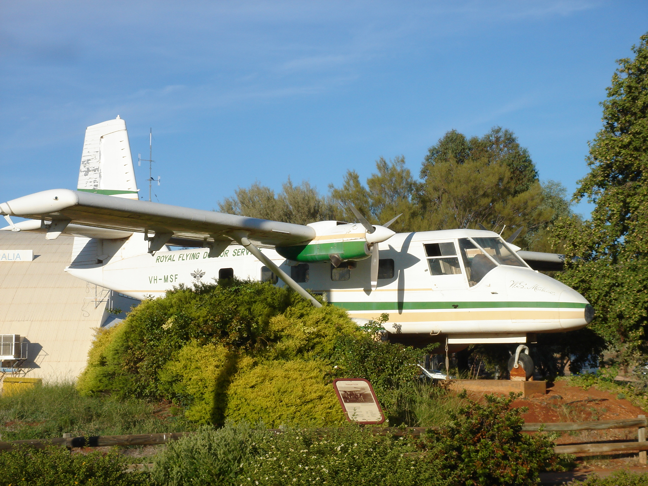 GAF N22C Nomad (VH-MSF), located at the airport in Broken Hill, NSW, Australia. Very tired looking.